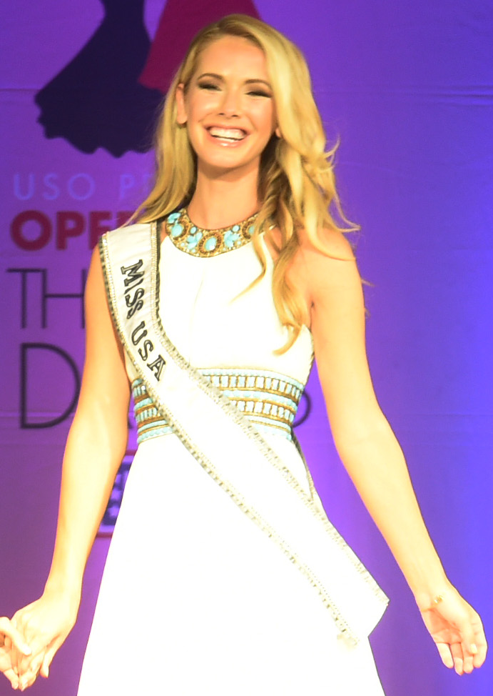 Olivia Jordan, 2015 Miss USA, shows her appreciation to the attendees of the USO sponsored Operation That’s My Dress event in Las Vegas, Aug. 30, 2015. More than 800 active duty females, spouses, and teenage daughters participated in the two-day event. (U.S. Air Force photo by Tech. Sgt. Nadine Barclay)